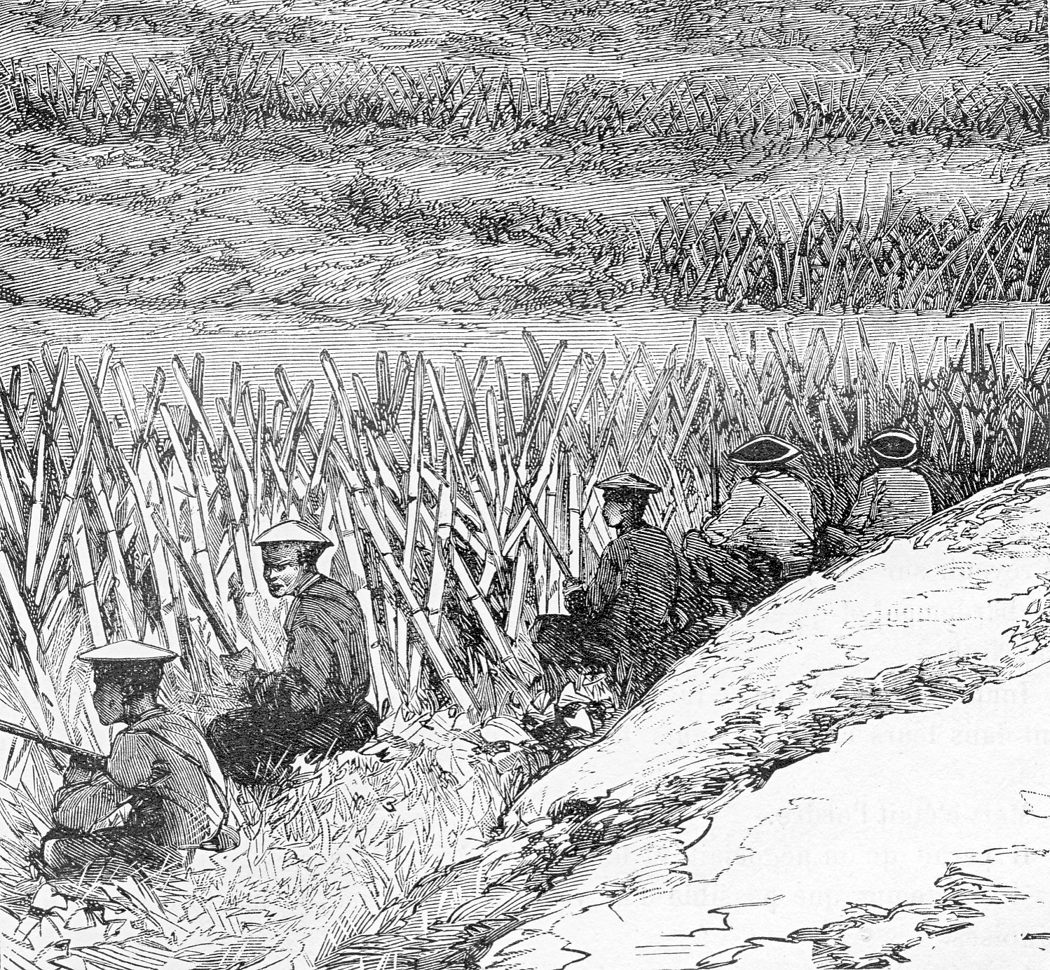 Chinese defences on the Mandarin Road to the southwest of Bac Ninh, March 1884